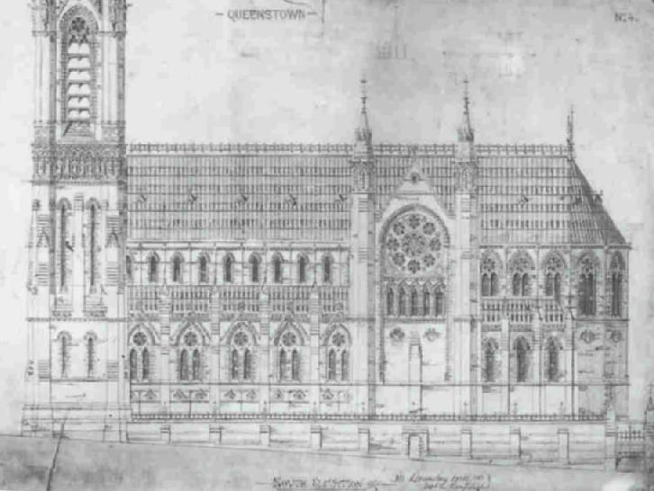 Plan drawing from 1869